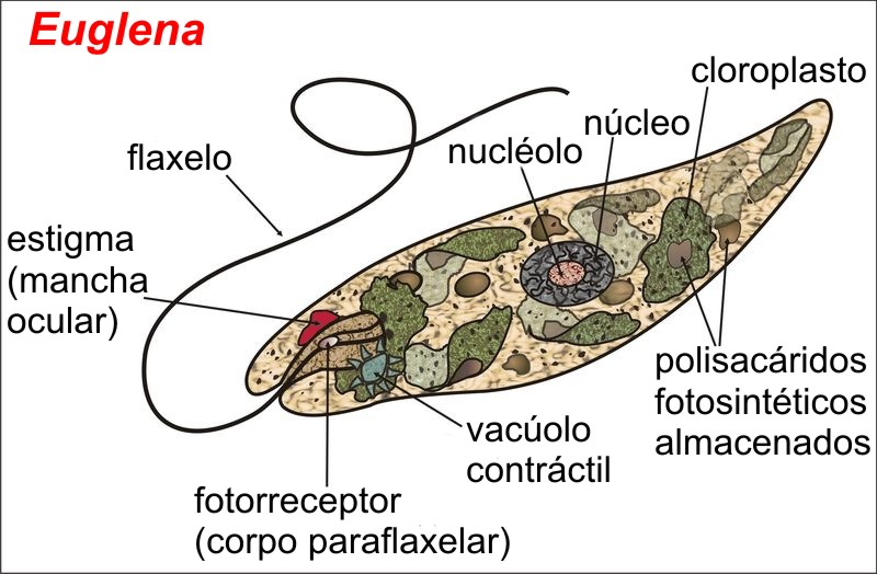 diagram of genus Euglena labelled in Galician